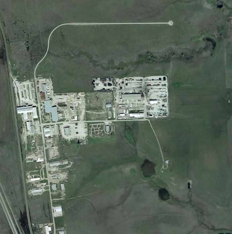 A 2001 USGS image of the Hicks Airfield.